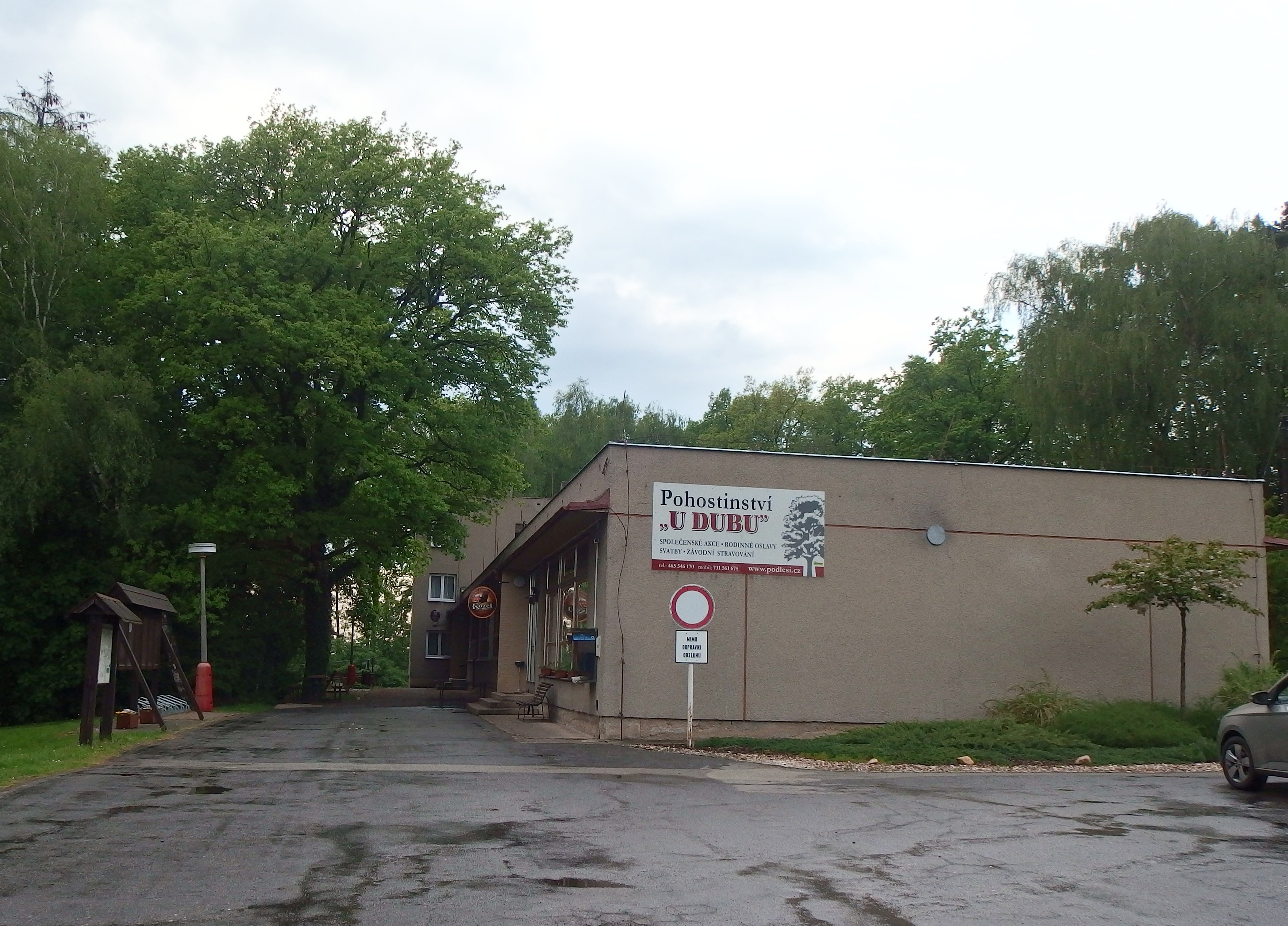 Podlesí, Ústí nad Orlicí District, Czech Republic, part Němčí.